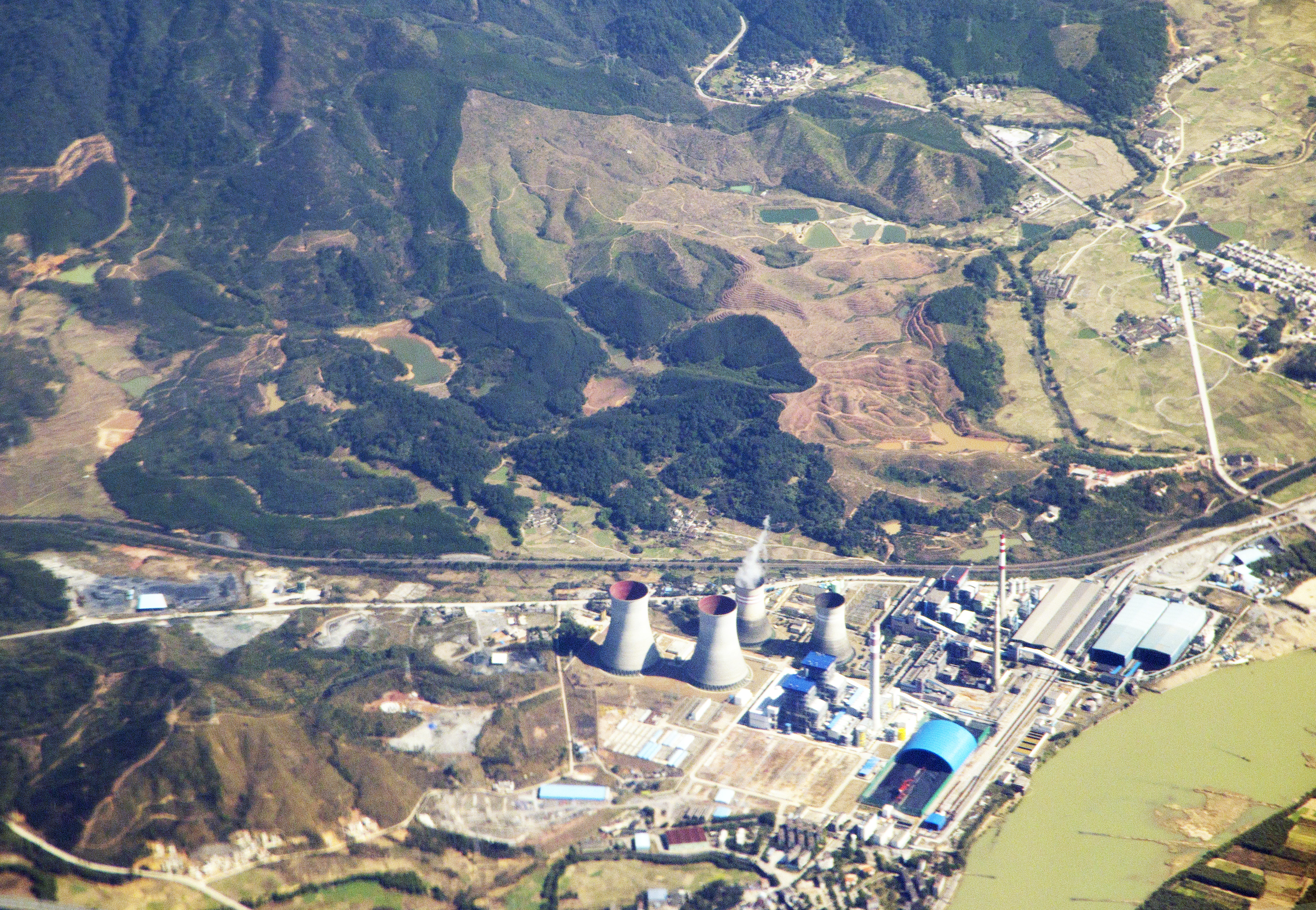 Shaoguan Power Plant